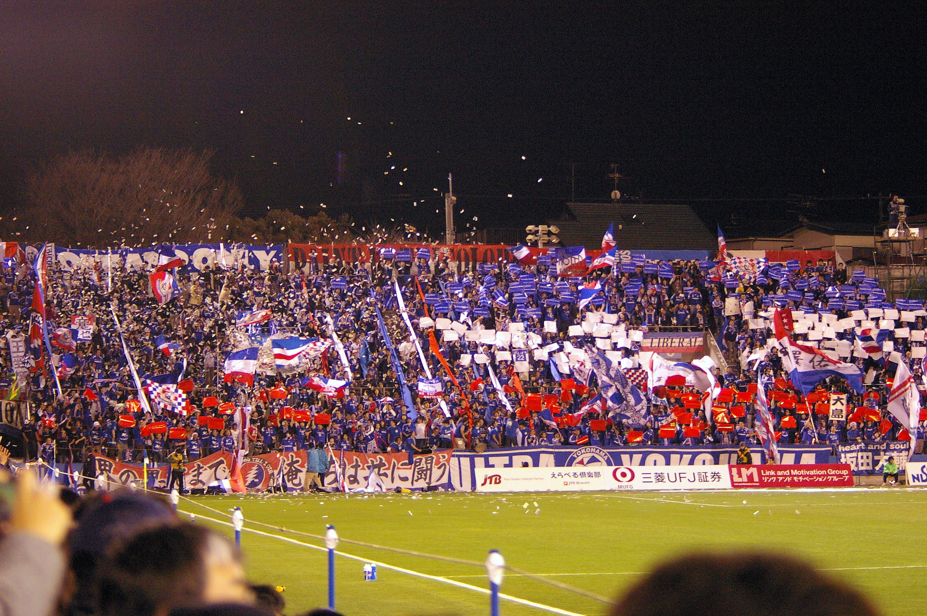 Yokohama delby Yokohama FC VS. Yokohama F･Marinos